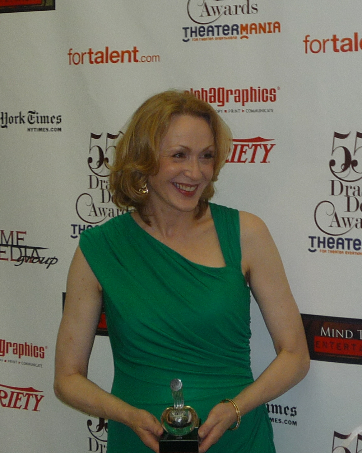 Winner for Outstanding Actress in a Play, Jan Maxwell